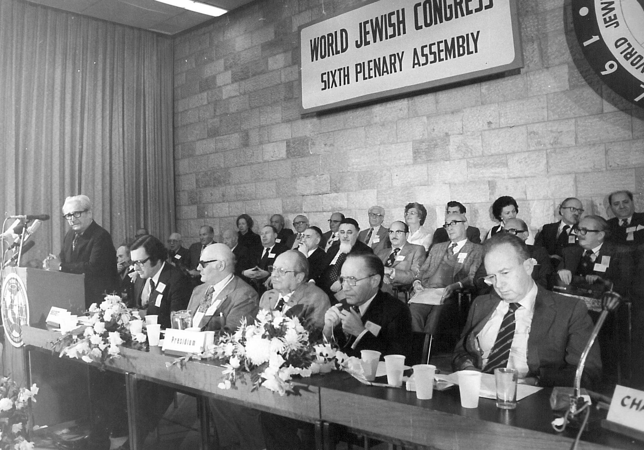 World Jewish Congress President Nahum Goldmann (standing) opens the Sixth Plenary Assembly of the WJC in Jerusalem. Seated in the front row, right: Israeli Prime Minister Yitzhak Rabin.